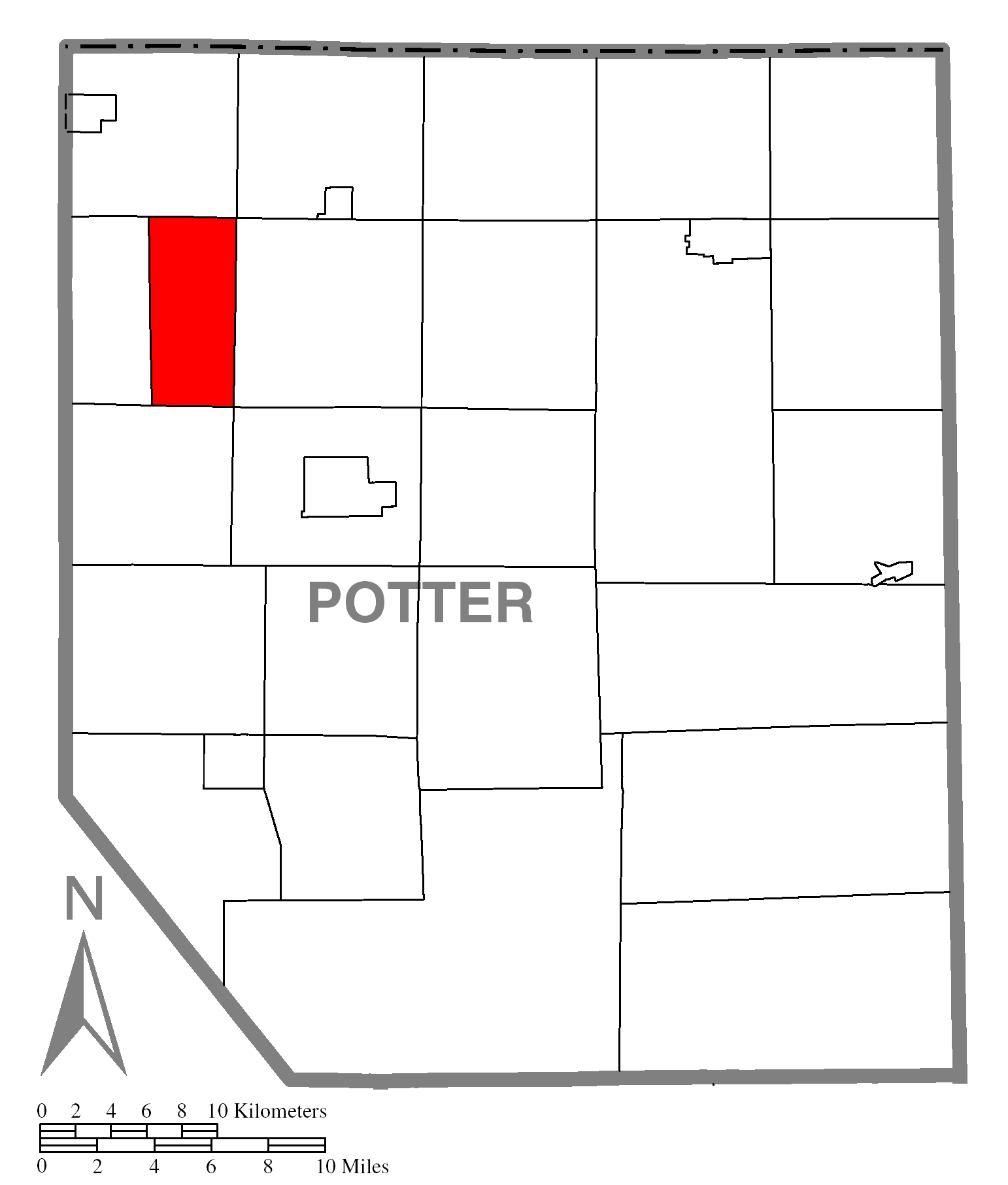 A map of Potter County showing Clara Township, Pennsylvania (alternate) highlighted on the map.